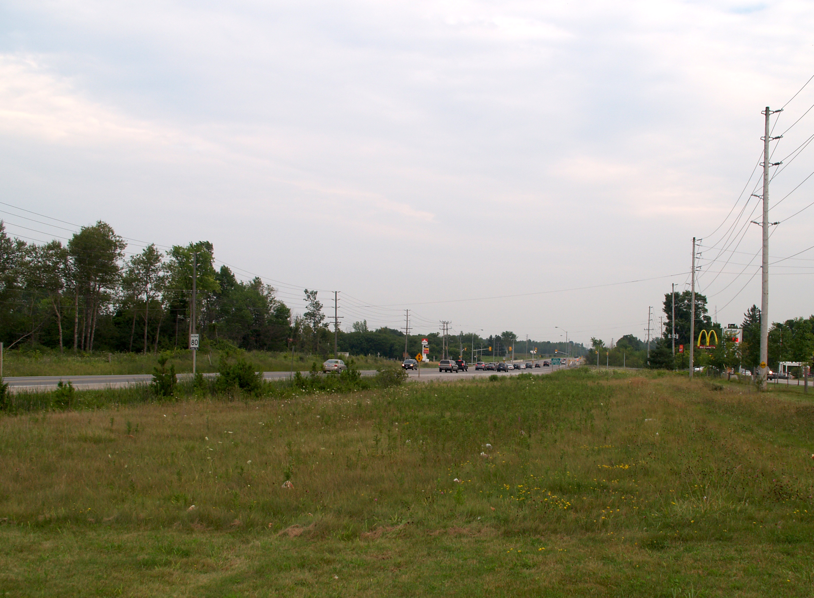 Highway 12 southbound east of Beaverton. A set of restaurants, gas stations and a large grocery store have opened in this otherwise rural location in the past 10 years.